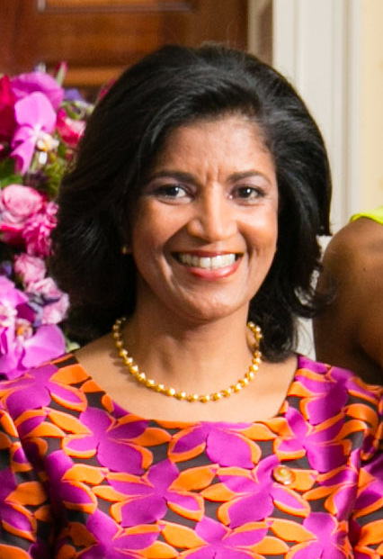 Mrs. Lígia Arcangela Lubrino Dias Fonseca, First Lady of Cape Verde, in the Blue Room during a U.S.-Africa Leaders Summit dinner at the White House, Aug. 5, 2014. (Official White House Photo by Amanda Lucidon)